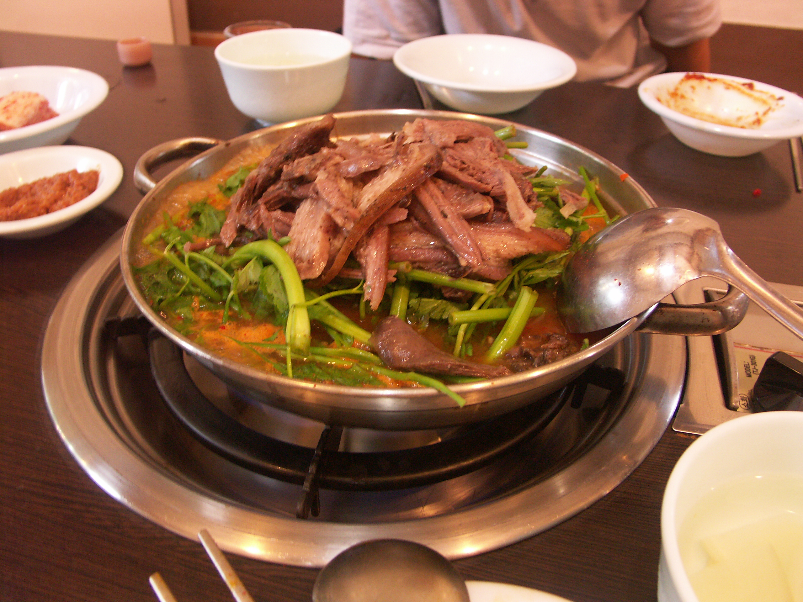 Gaegogi (dog meat) stew served at a restaurant in Seoul, South korea